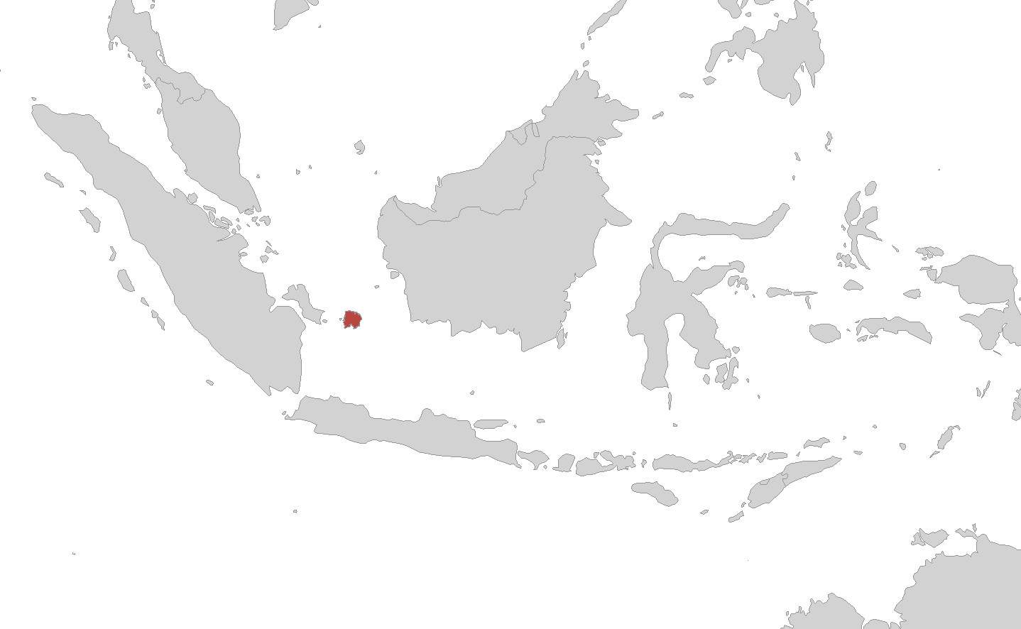 Ichthyophis billitonensis range